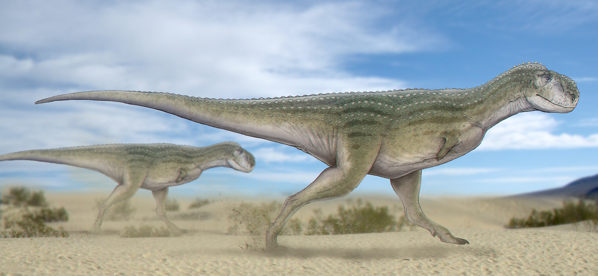 Restoration of Chenanisaurus sprinting along a shoreline